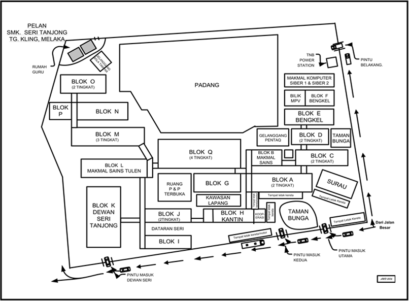 Pelan Sekolah